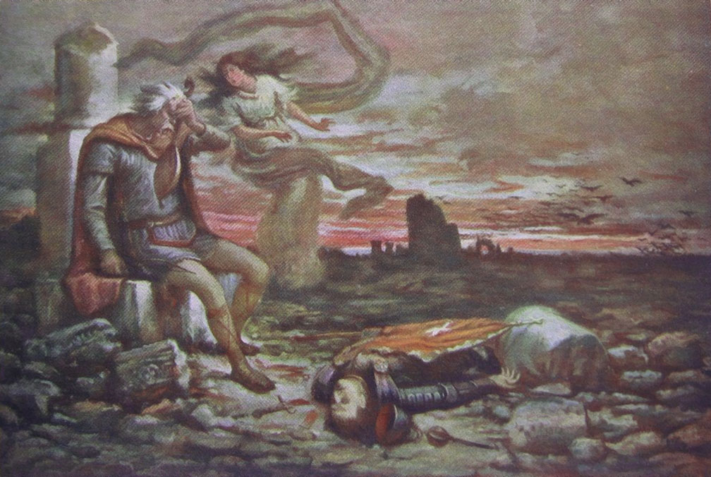 "Propast Srpskog carstva na Kosovu 1389" (Destruction of the Serbian Empire on Kosovo 1389) by Anastas Bocarić. This copy is from a postcard dating to between 1921 and 1930.